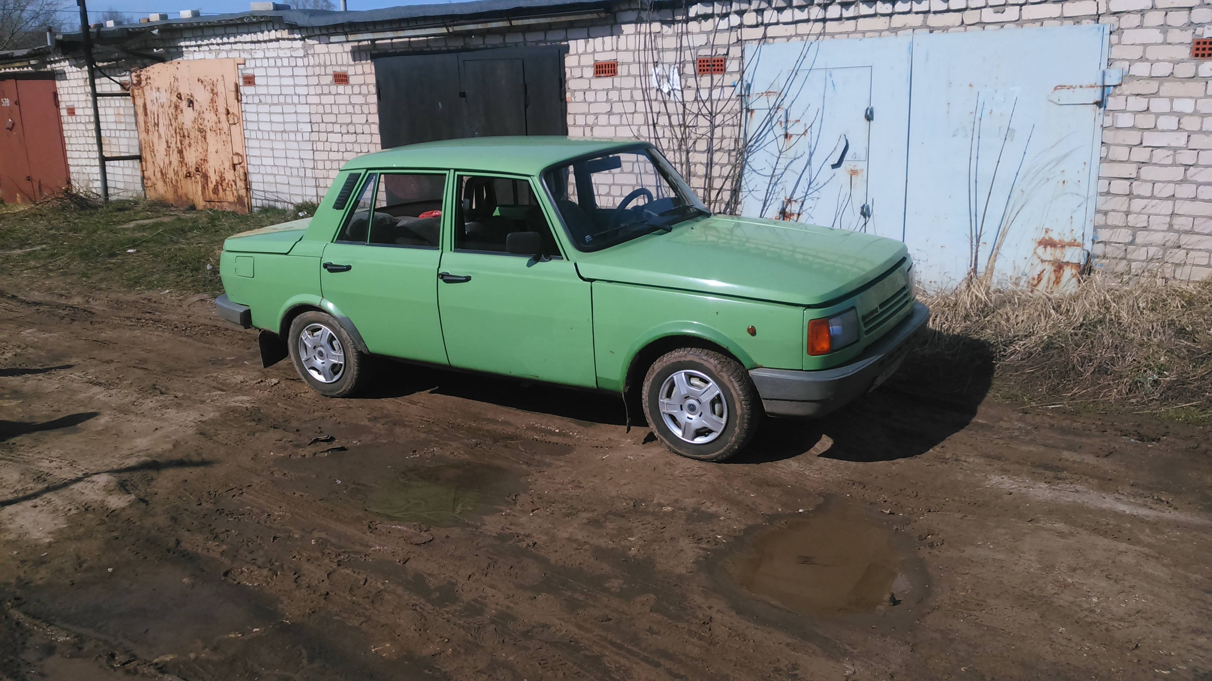 1990 Wartburg 1.3 photographed in Pavlovo, Russia